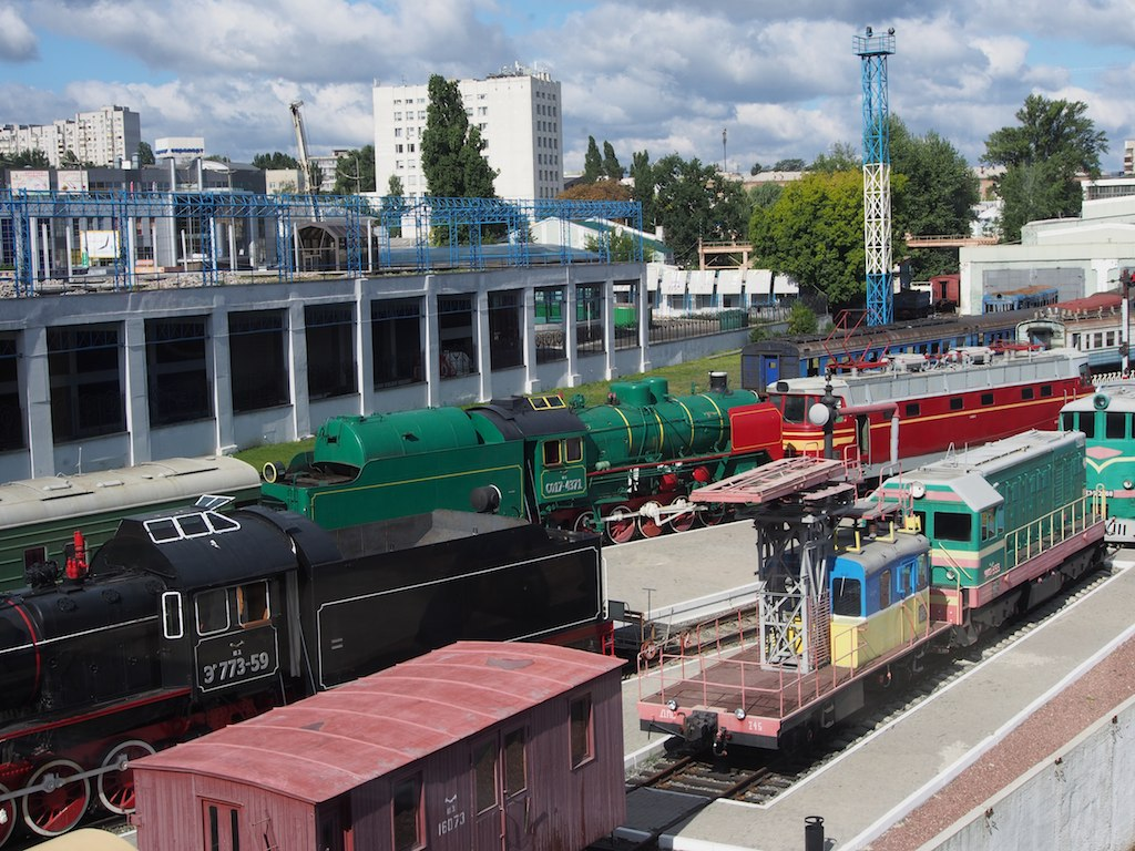 Railway Museum Kiev